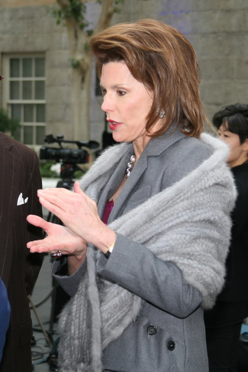 (based on Flickr tags and date) probably at the unveiling of Shepard Fairey's Barack Obama "Hope" poster stencil at the Smithsonian National Portrait Gallery